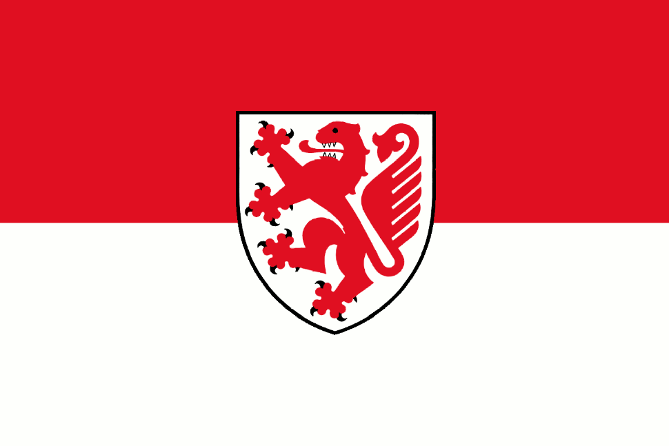 flag of the city of Braunschweig